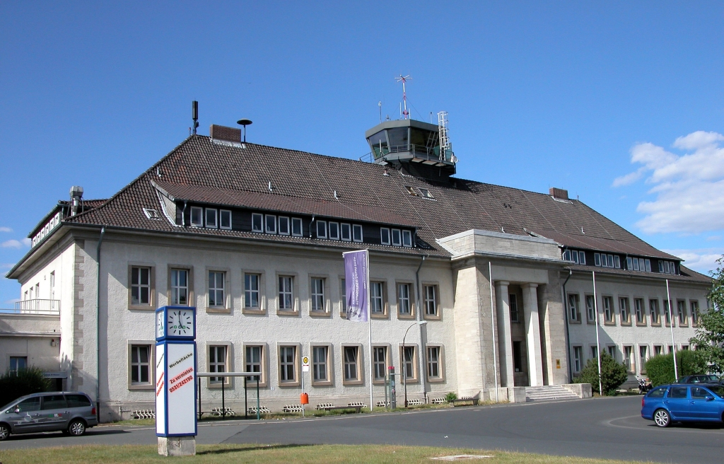 Brunswick, Germany: Main building of Braunschweig-Wolfsburg Airport, entrance.